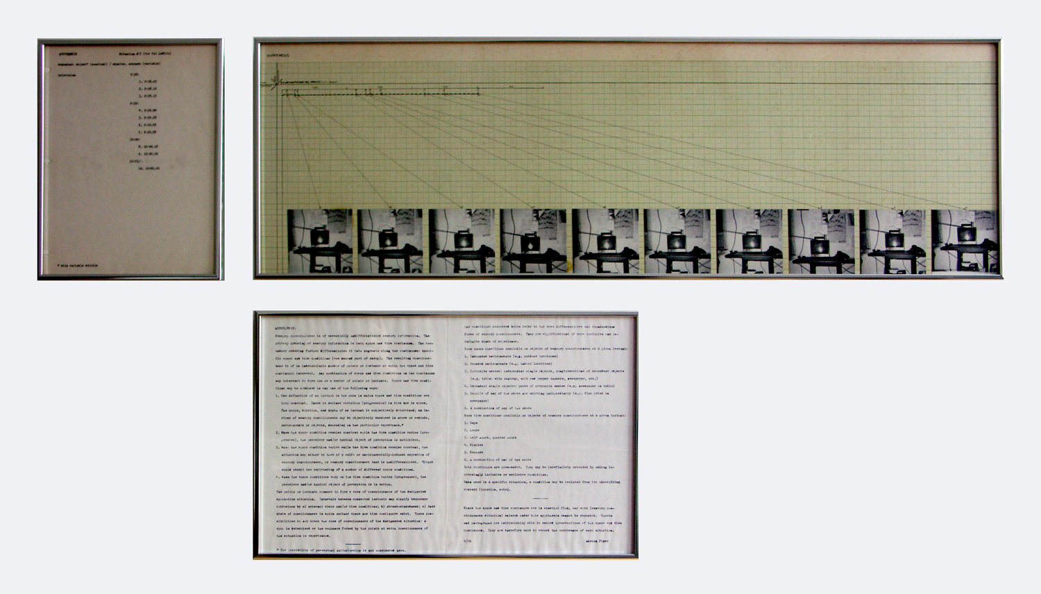 Hypothesis: Situation #3 (for Sol LeWitt); photo-chart collage on graph paper, original typescript, vintage photo offset text, the author is Adrian Piper